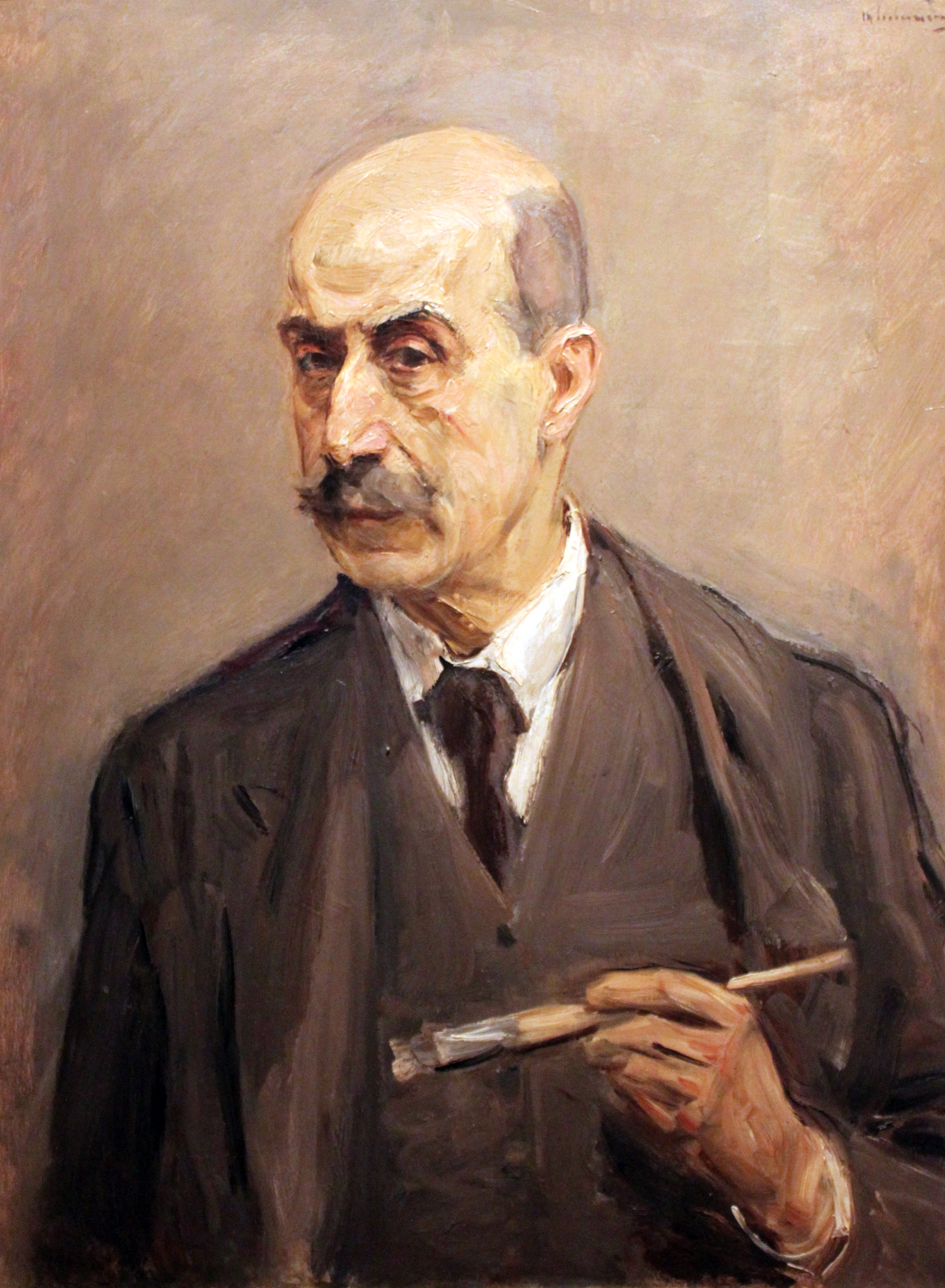 Self Portrait